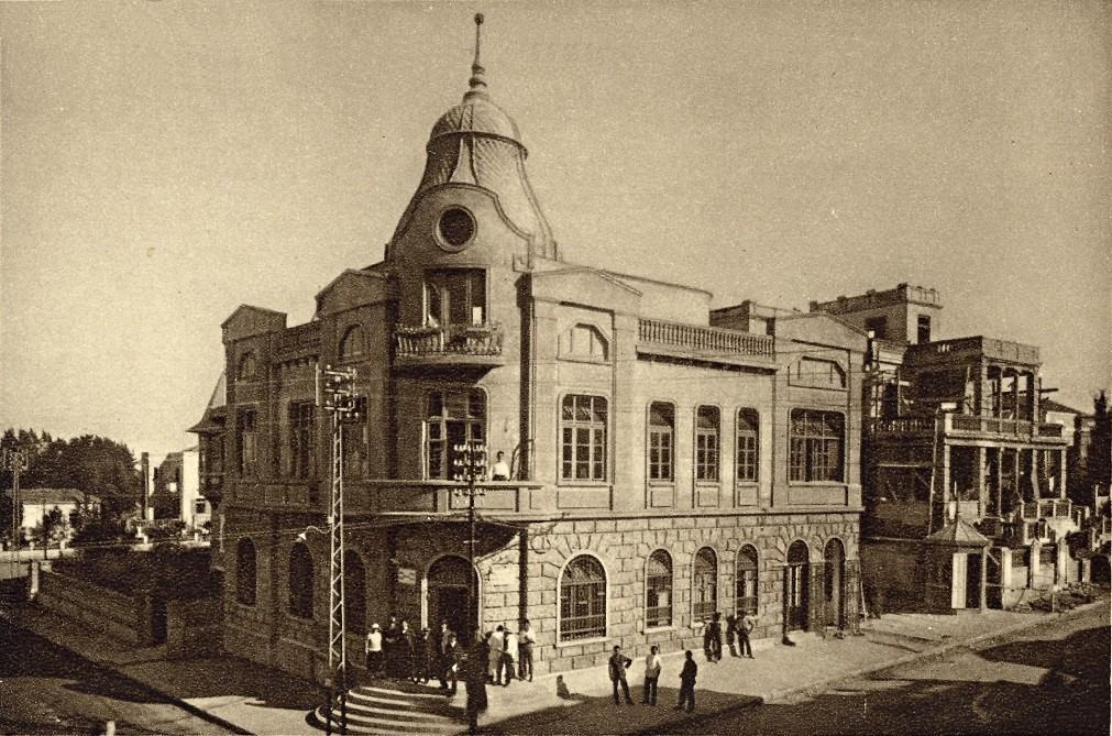 Tel aviv, Architecture of Israel